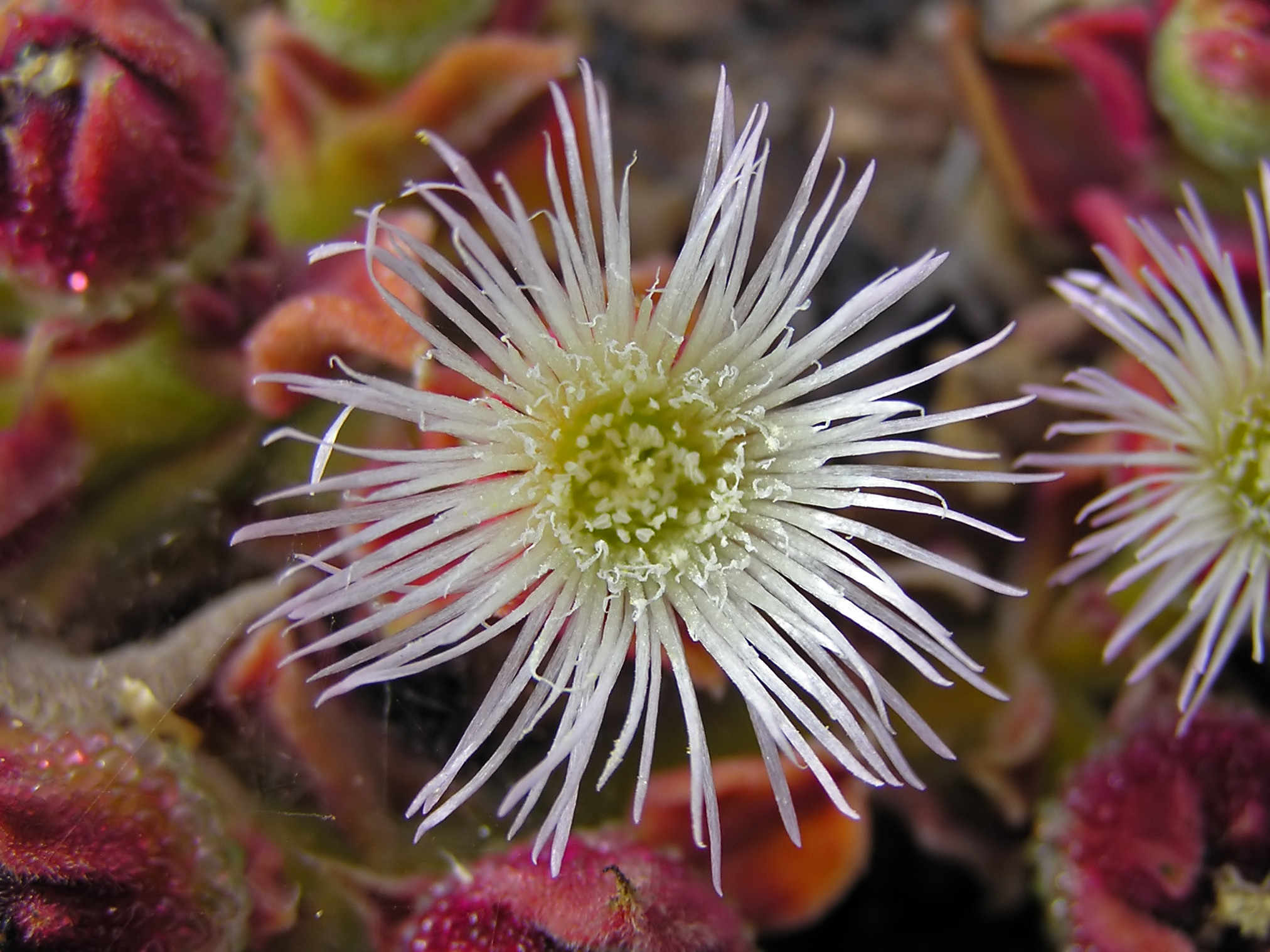 Mesembryanthemum crystallinum, detail of flower. Photographed in the wild in the La Geria region of Lanzarote.